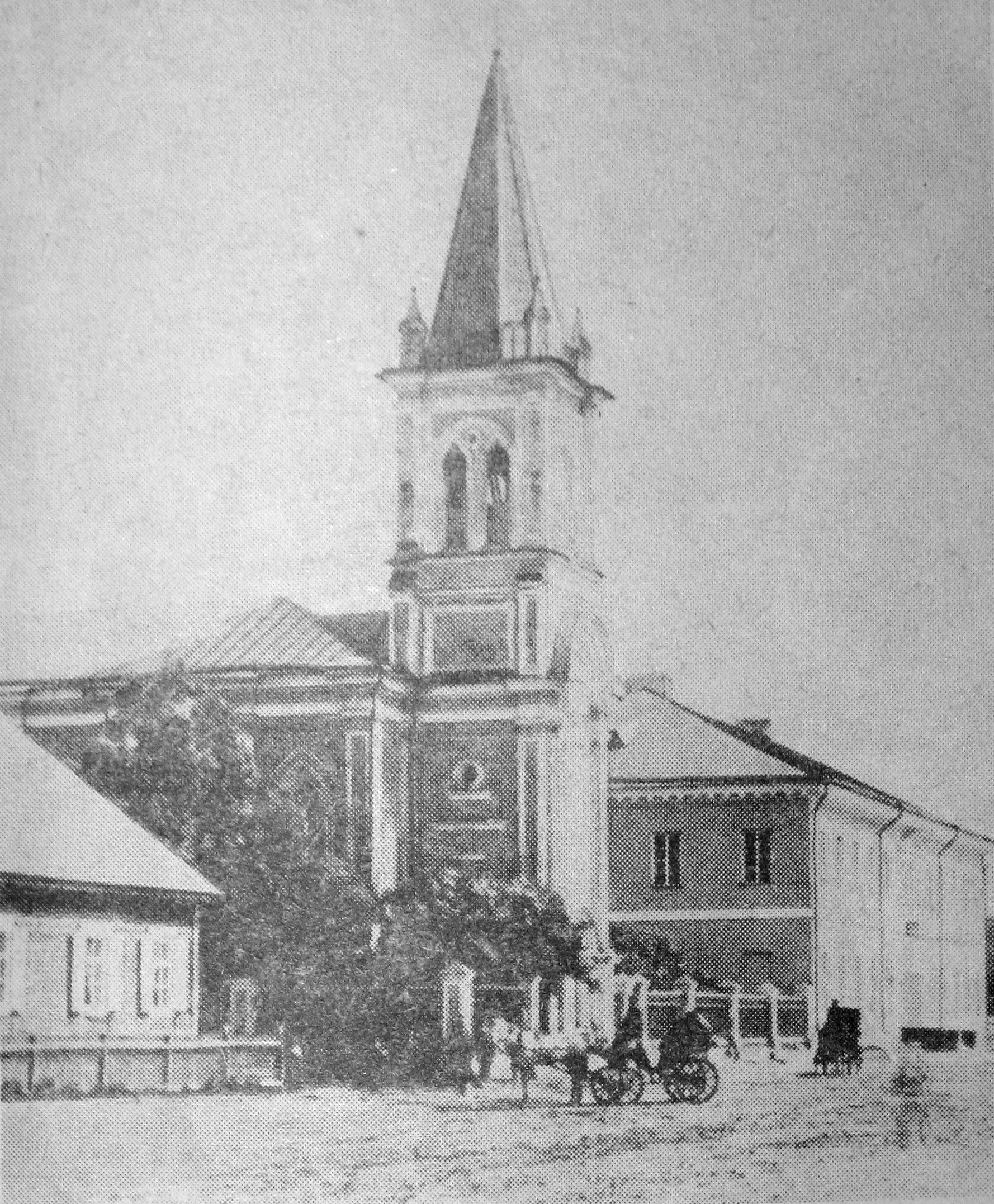 Sluck gymnasium before 1917.